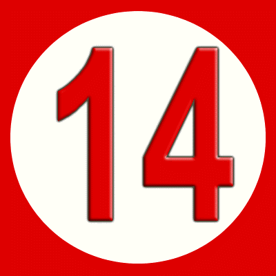 Illustration of Pete Rose's Retired Reds Number